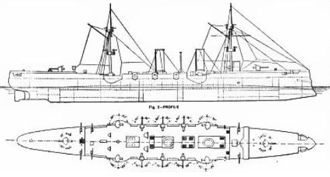 Line-drawing of the Italian cruiser Piemonte in 1889